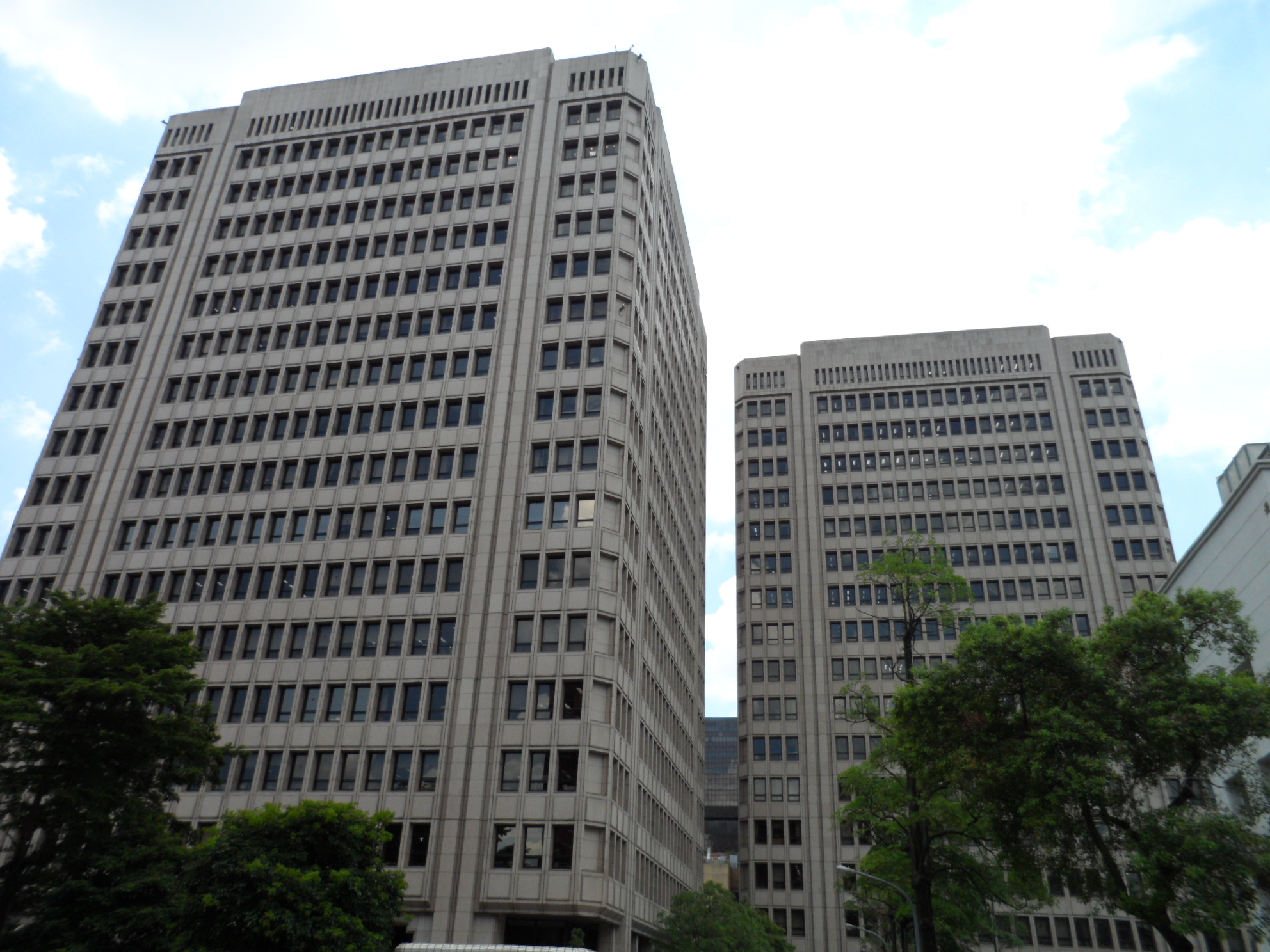 Joint Central Government Office Building, Zhongzheng District, Taipei City, Taiwan